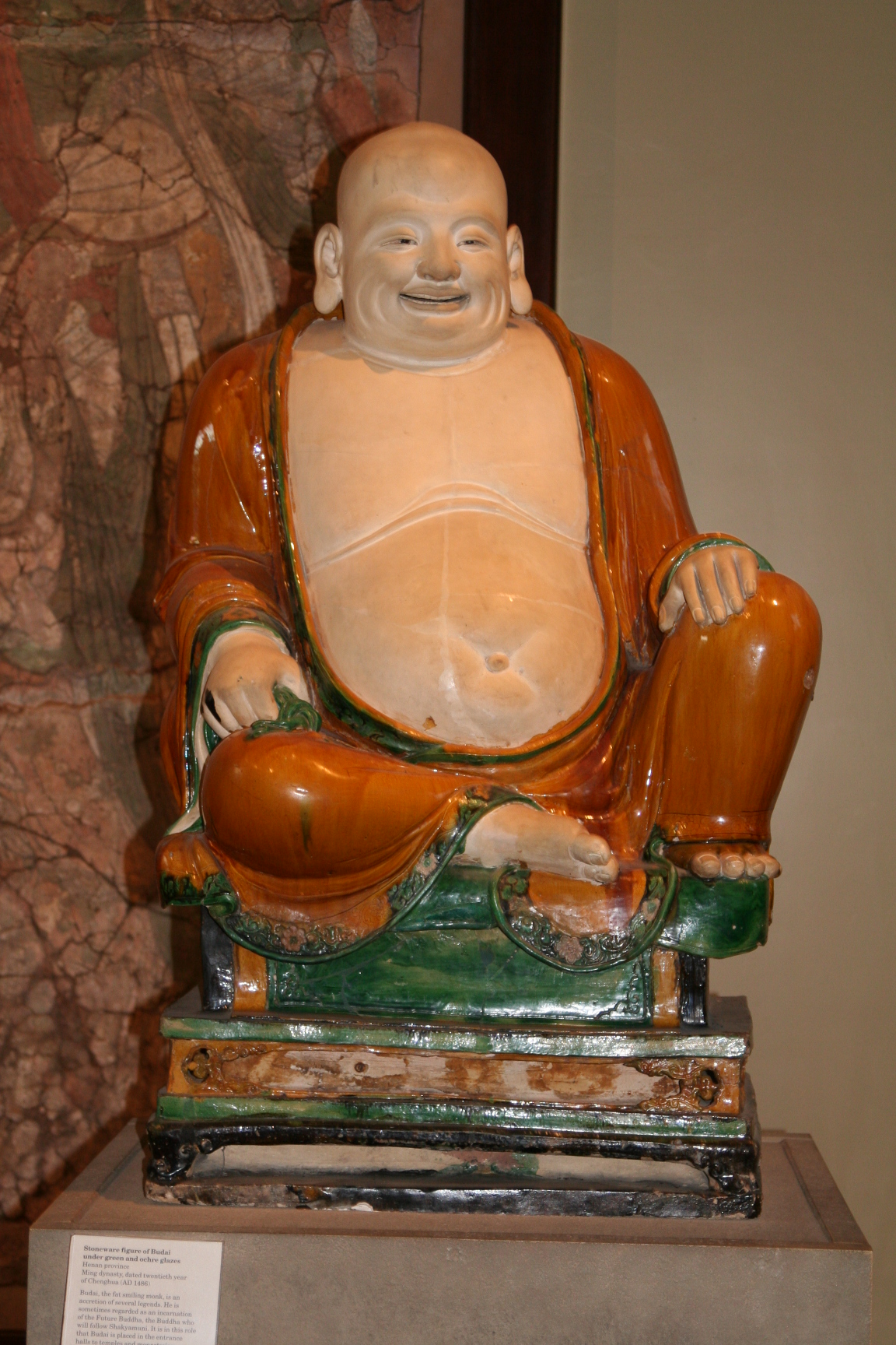 Photos taken at the British Museum - Asian Gallery - Glazed stoneware of a Buddhist monk, the Future Buddha, Ming Dynasty, China, dated to the 20th year of the Chenghua Emperor, or 1468 AD.